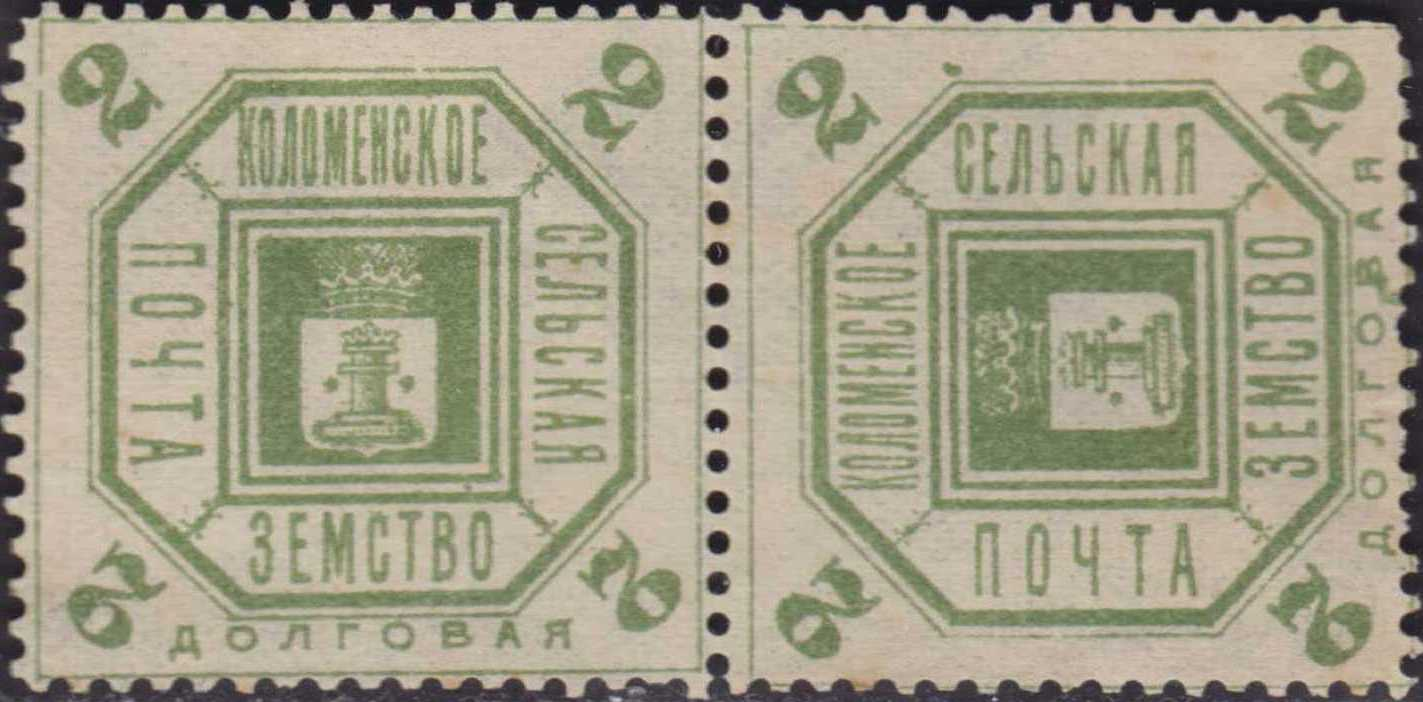 Zemstvo postage due stamp, Kolomna, Moscow Governorate, Russia